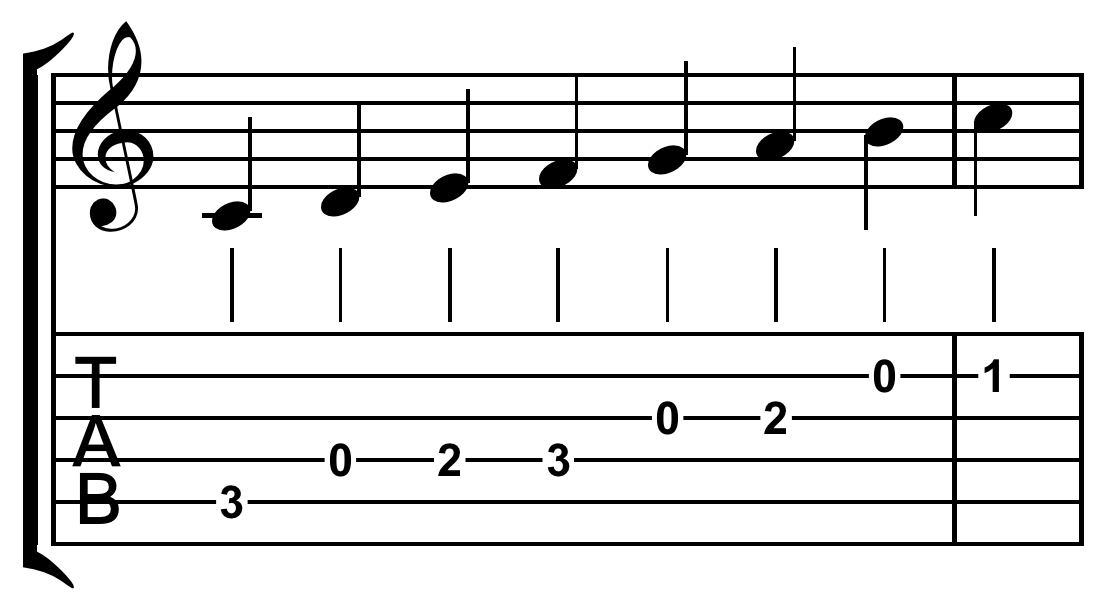 Diatonic scale on C, guitar tablature clef.